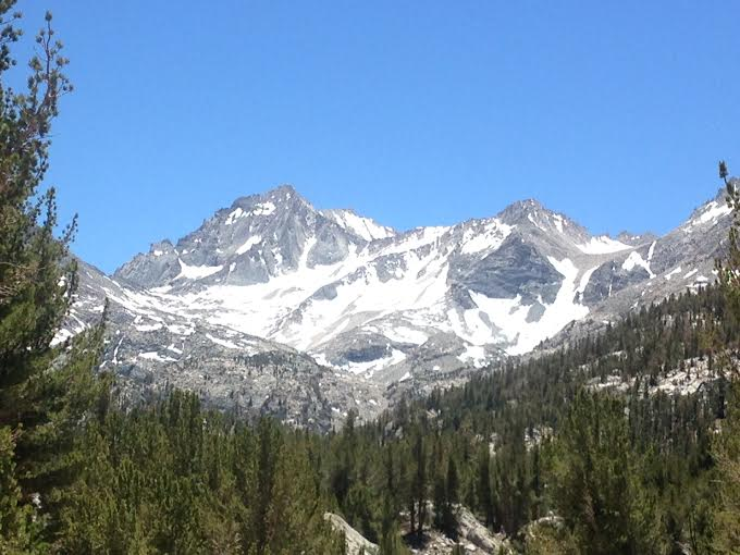 Photo of Bear Creek Spire from Mosquito Flat trail head